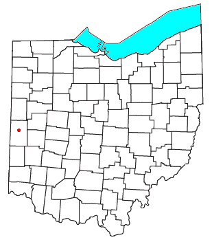 Locator map of the unincorporated community of Beamsville in Darke County, Ohio, United States.